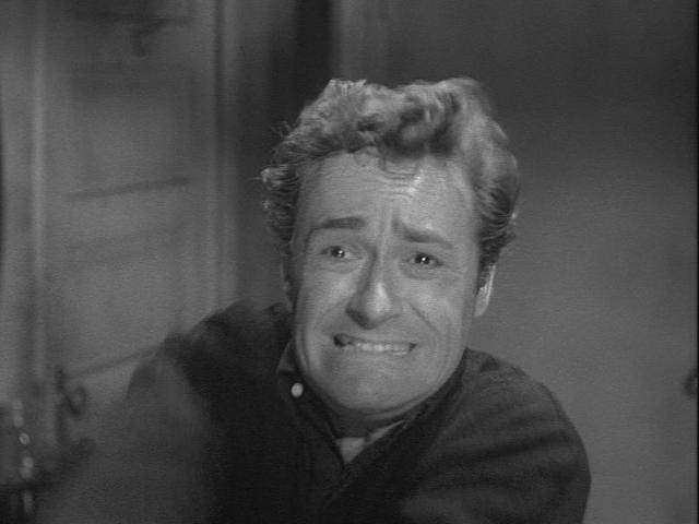 Profile image of actor Dick Miller in the public domain film A Bucket of Blood.